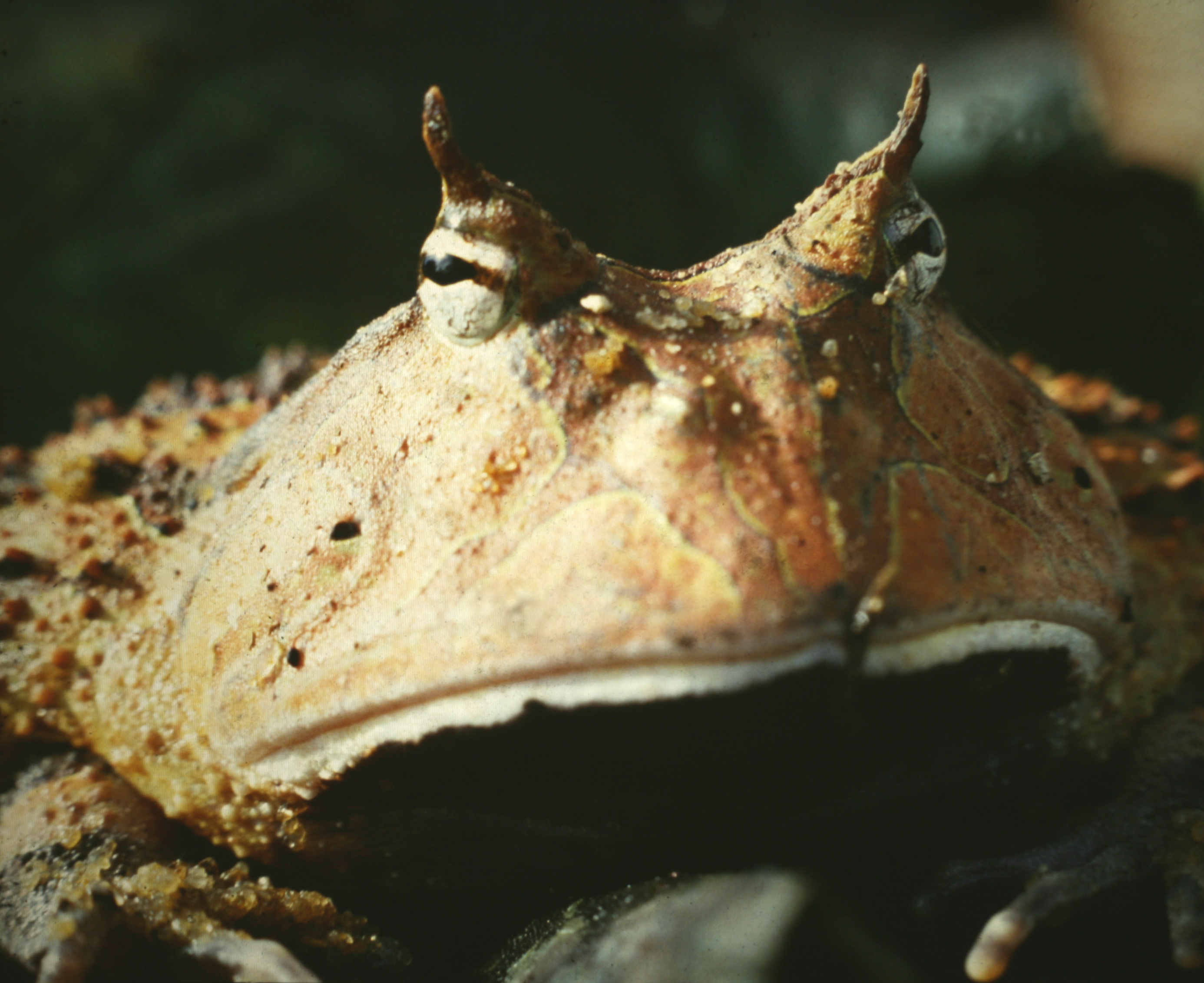 Ceratophrys cornuta . Photographed in Brownsberg nature park, Suriname, rainy season. About 1980